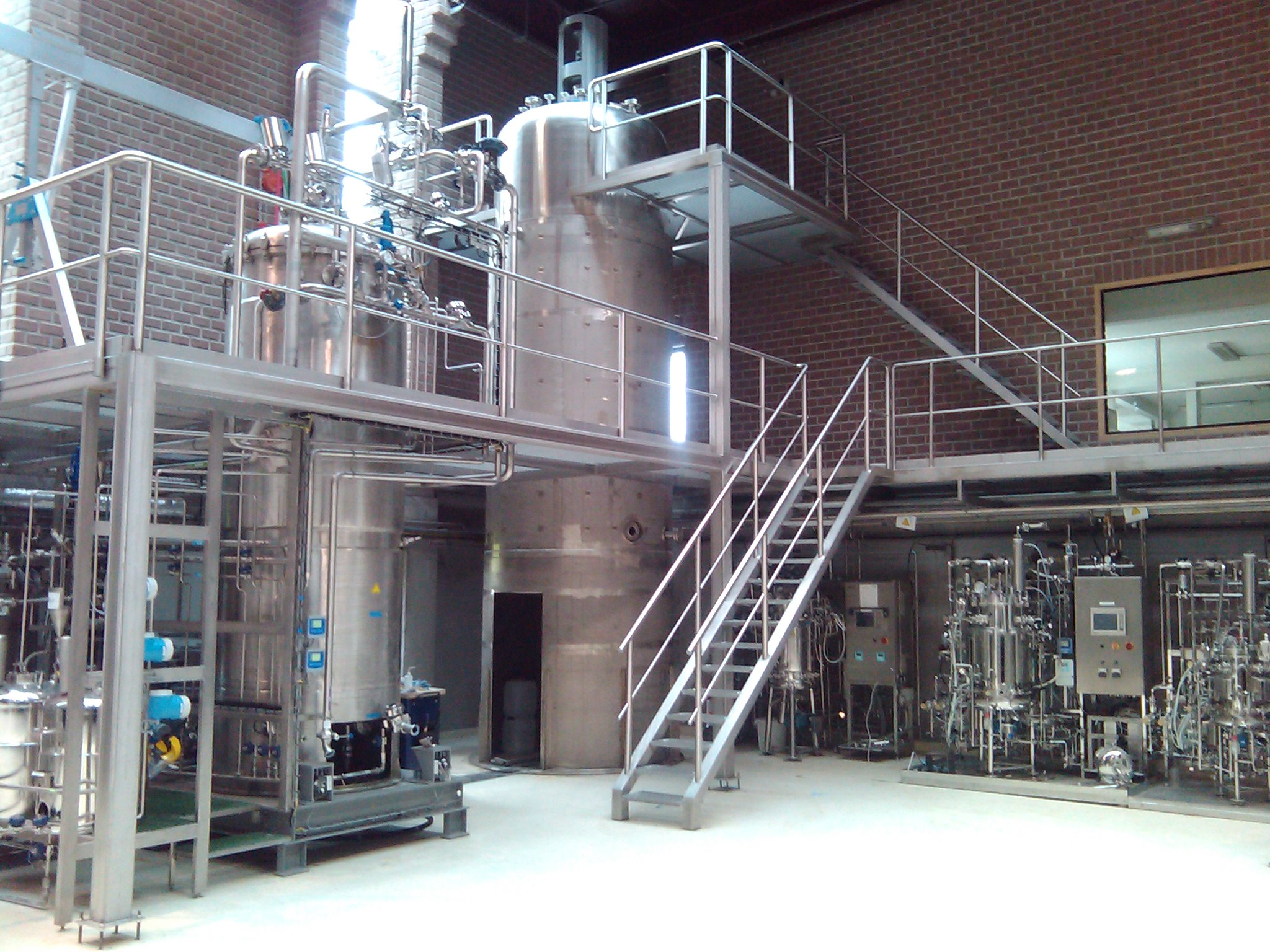 Pilot scale fermenters with volumes of 100 L, 4500L and 15000L